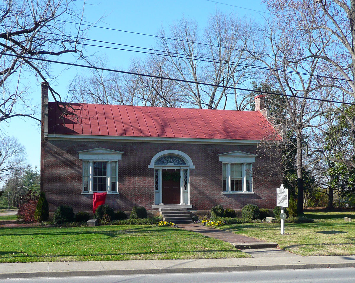 Photograph of the front of the Carter House.